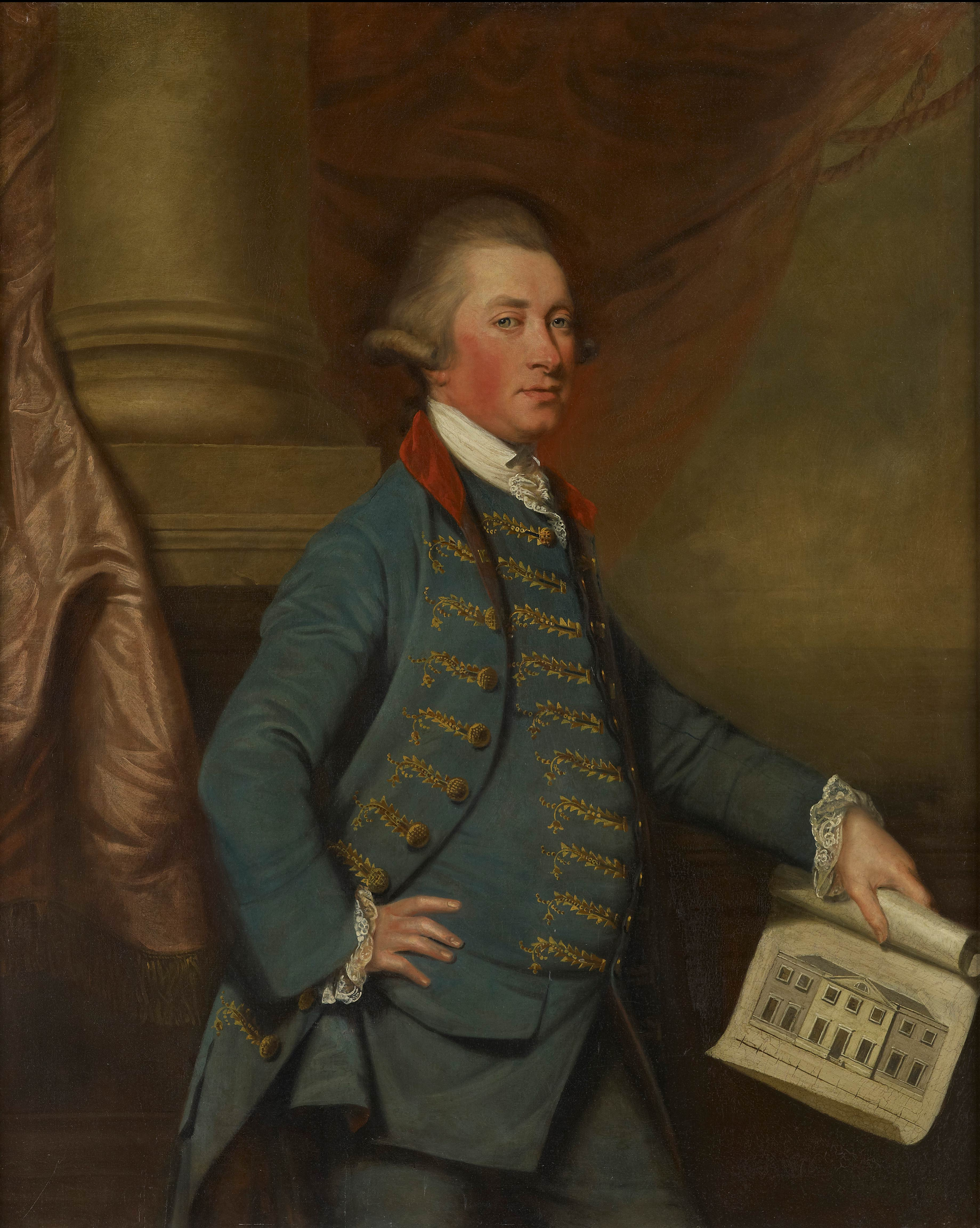 Portrait of William Helyar (d.1820), holding a design for the Georgian wing of Coker Court, Somerset. Oil on canvas; 145.8 x 102 cm Offered for sale by Philip Mould & Co., as of May 2019.